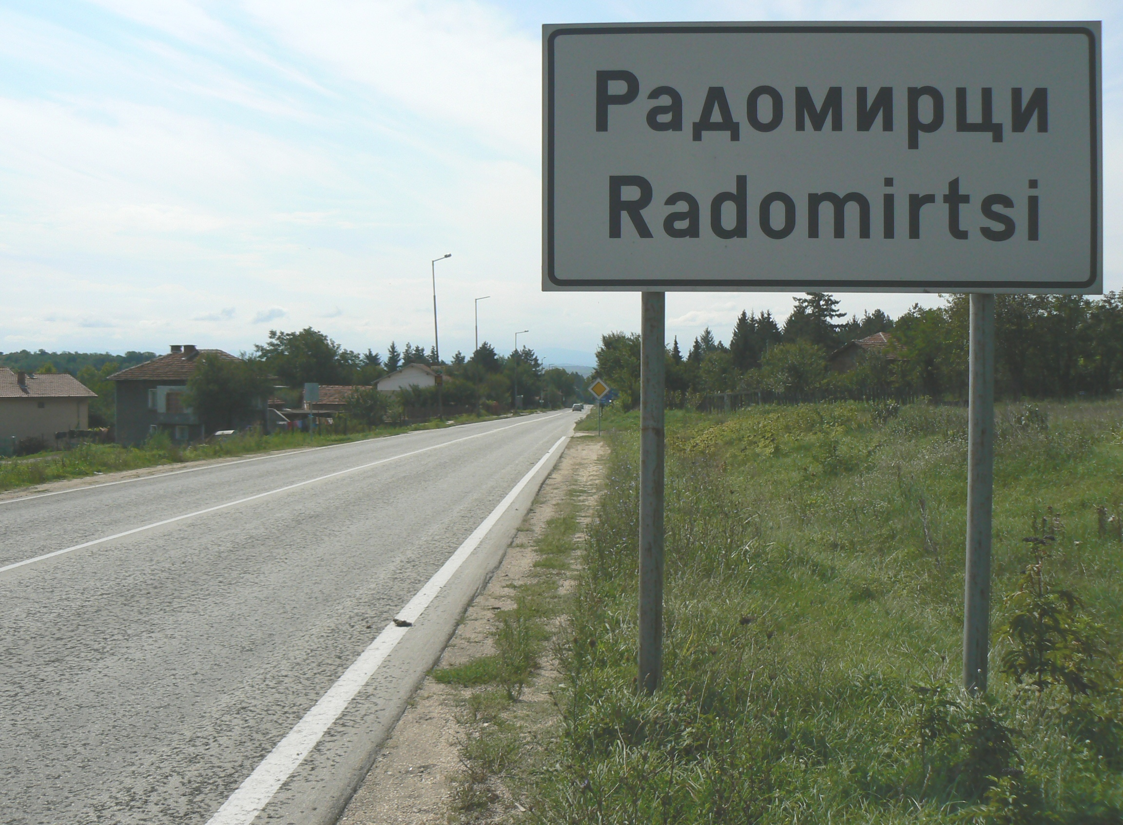 Village Radomirtsi, Bulgaria